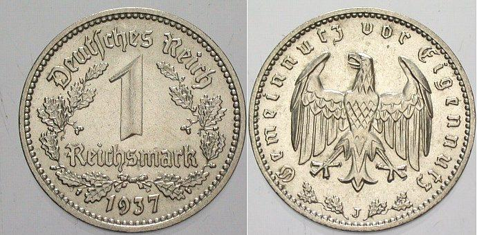 Nazi German 1 Reichsmark.